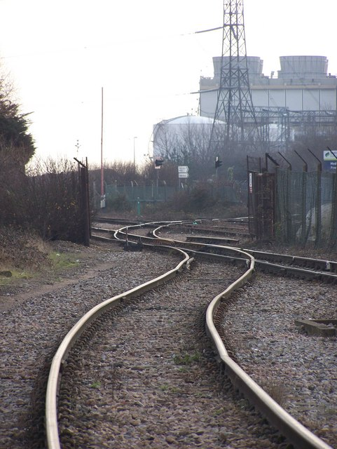 Sidings on Mineral Railway Right sidings go towards the Container Terminal, the left sidings go to Medway Power Station. These are the end of the lines from Hoo Junction. In the background is Medway Power Station.